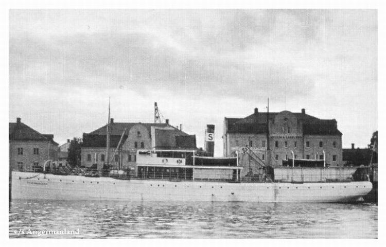 S/S Ångermanland moored at harbour. Logotype on the smokestack shows it is operated by Stockholms Rederi AB Svea, Stockholm.